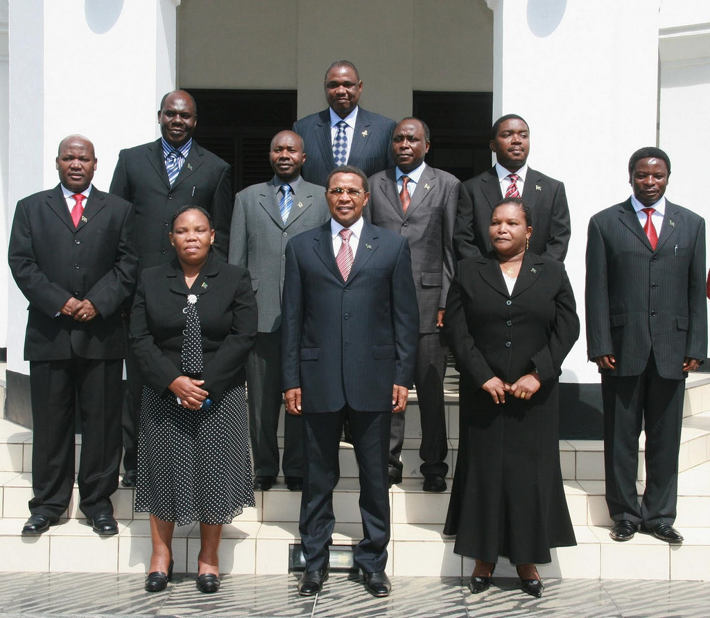 President of Tanzania with deputy secretaries.